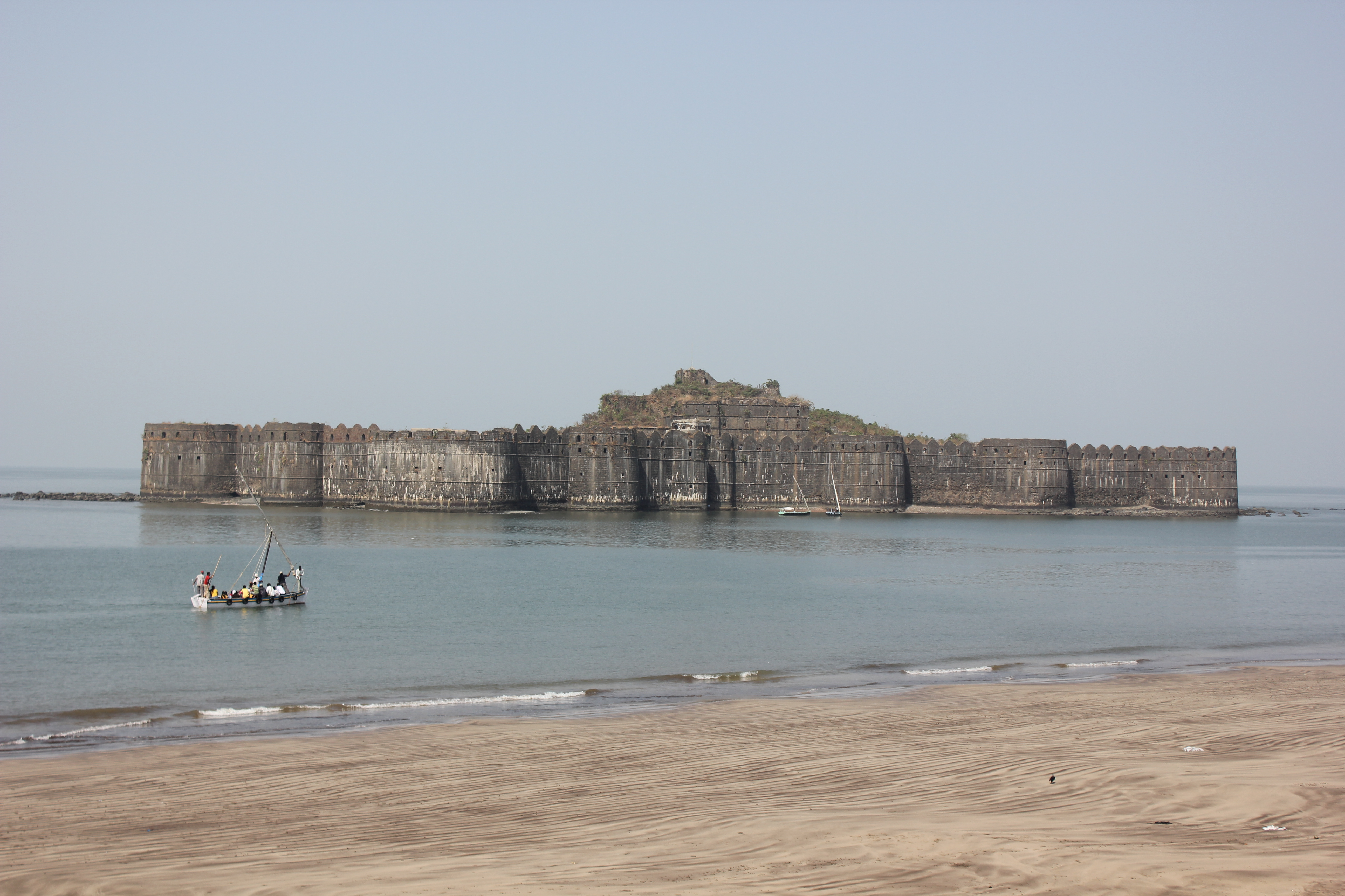 Janjira Fort